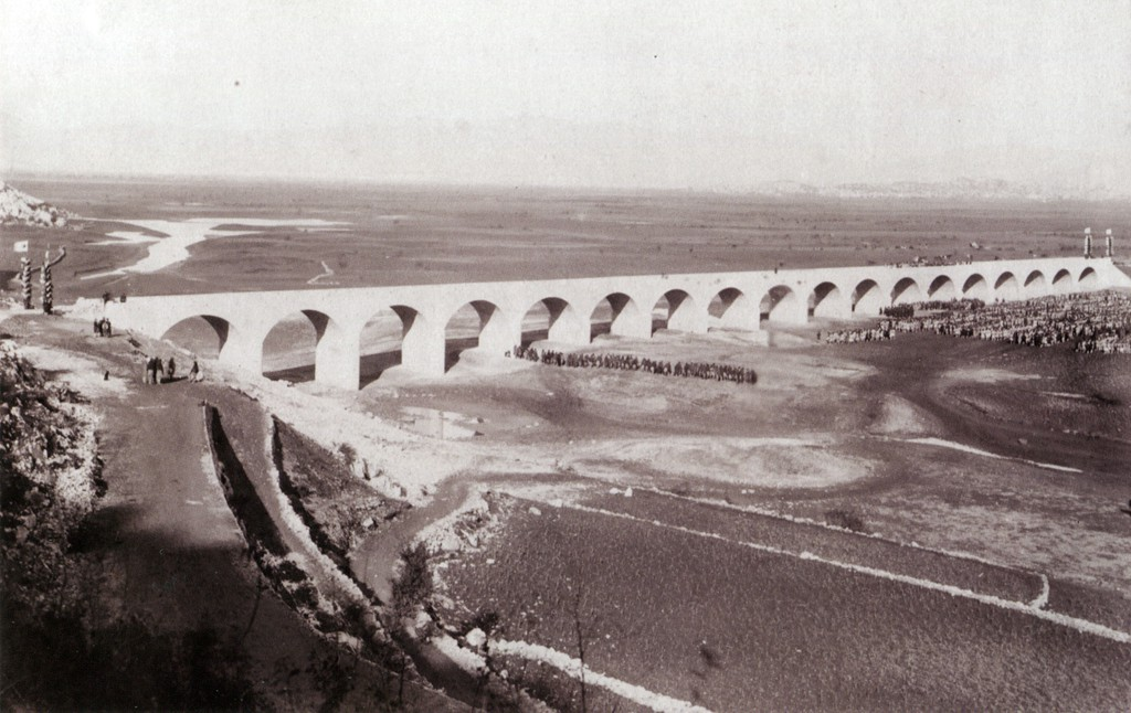 Nikšić, Montenegro. Inauguration of the Čar Bridge on the Zeta River near Nikšić, before 1901. Sultan Abdul Hamid Photo Collection, Istanbul University Library, No. 91243-95